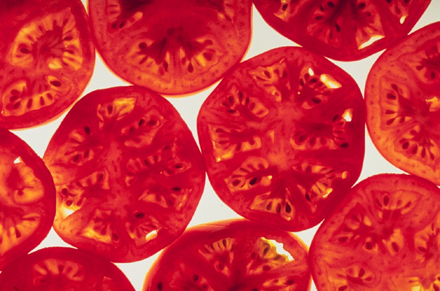 Tomatoes.